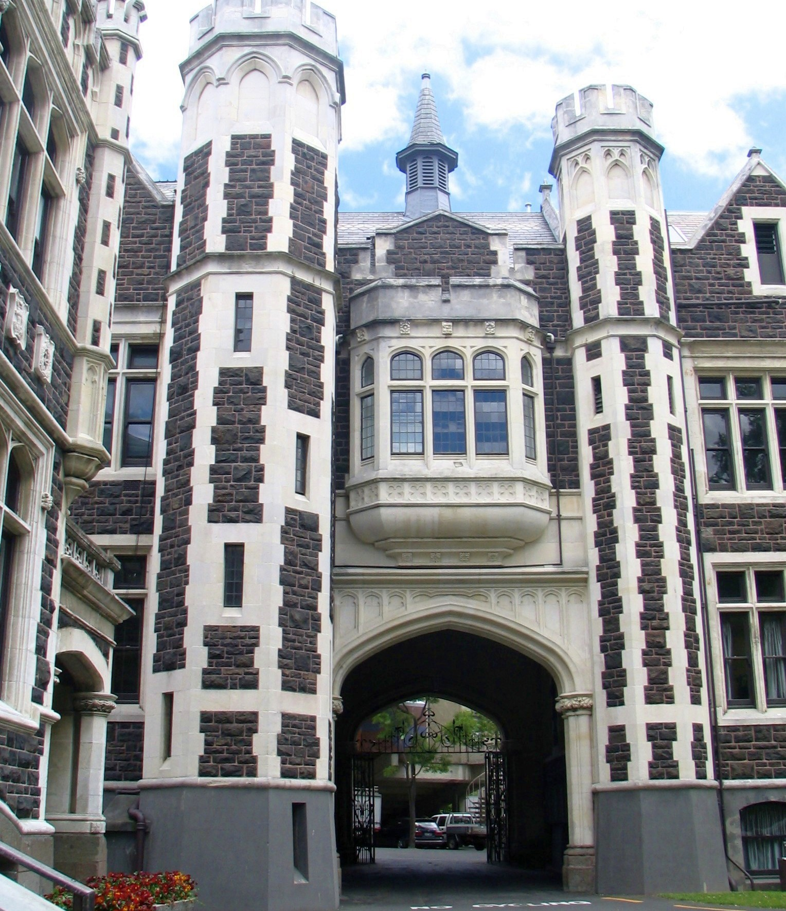 Archway building of the University of Otago, looking SSW through the arch. Dunedin, New Zealand. New Zealand Historic Places Trust Register number: 4771.